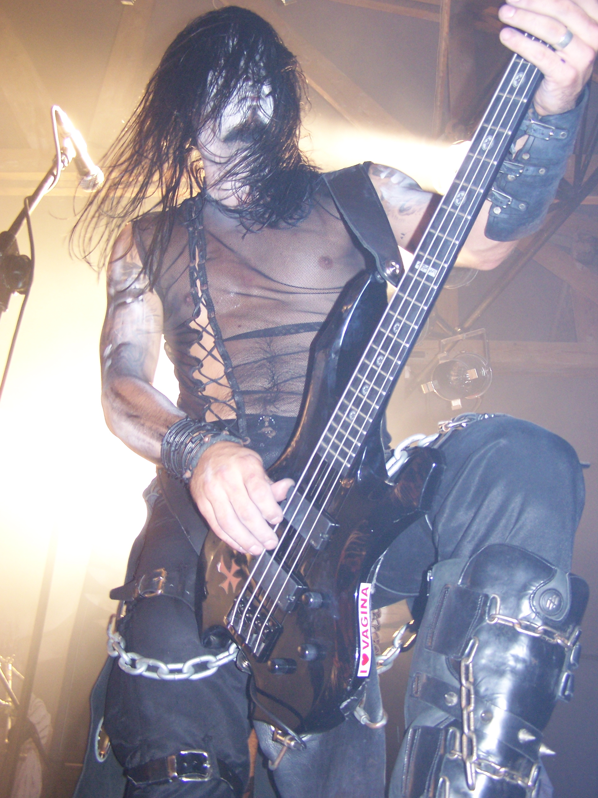 Tomasz Wróblewski from Behemoth during Polish Apostasy Tour 2007 in Mega Club in Katowice.